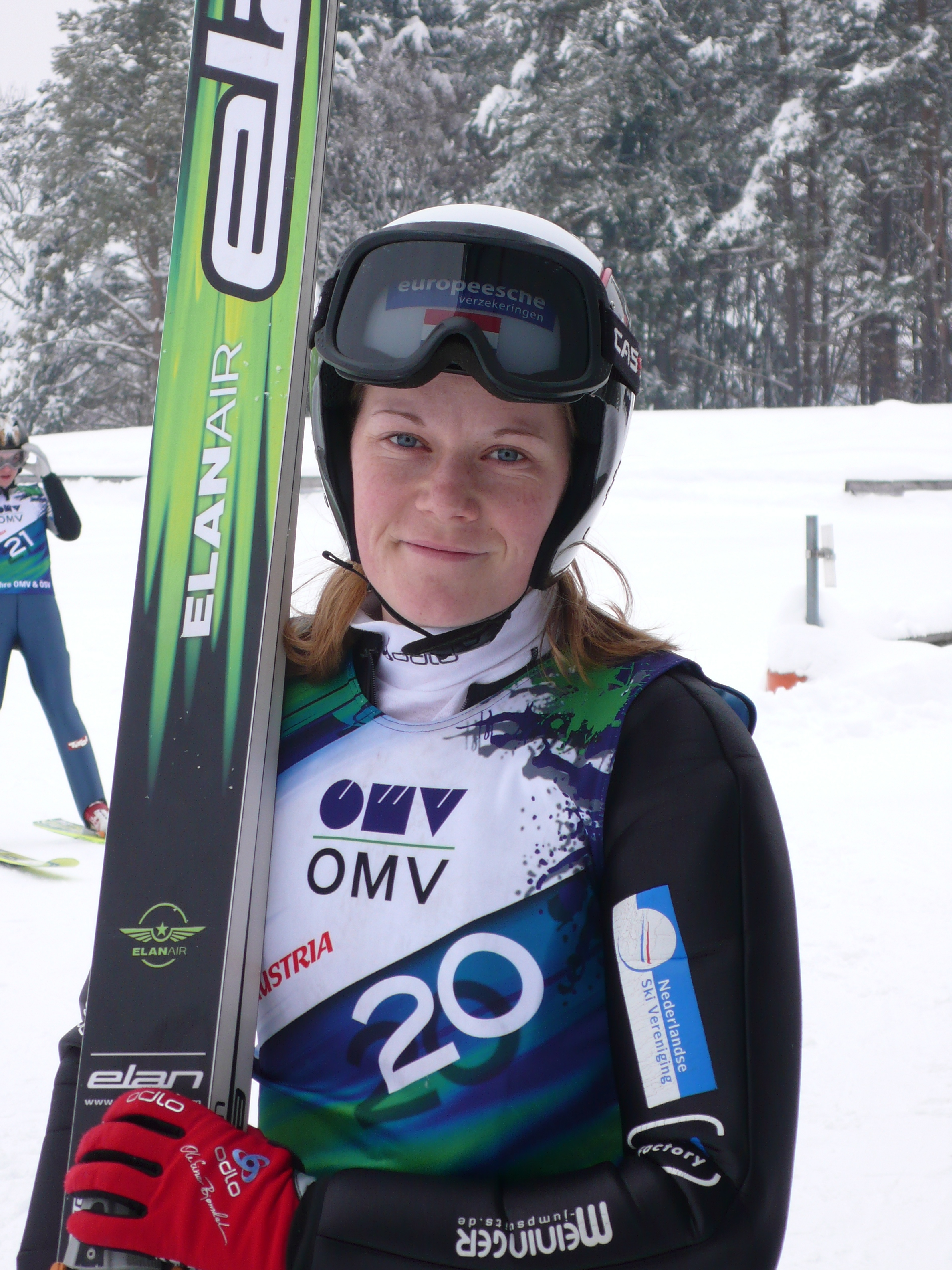 Wendy Vuik, at the Ski jumping Continental Cup in Villach on the 2010-02-12.